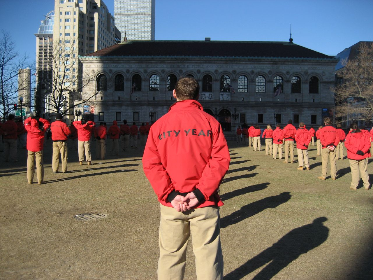 City Year Corps members.